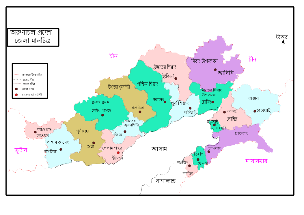 ArunachalDistrictMapBengali